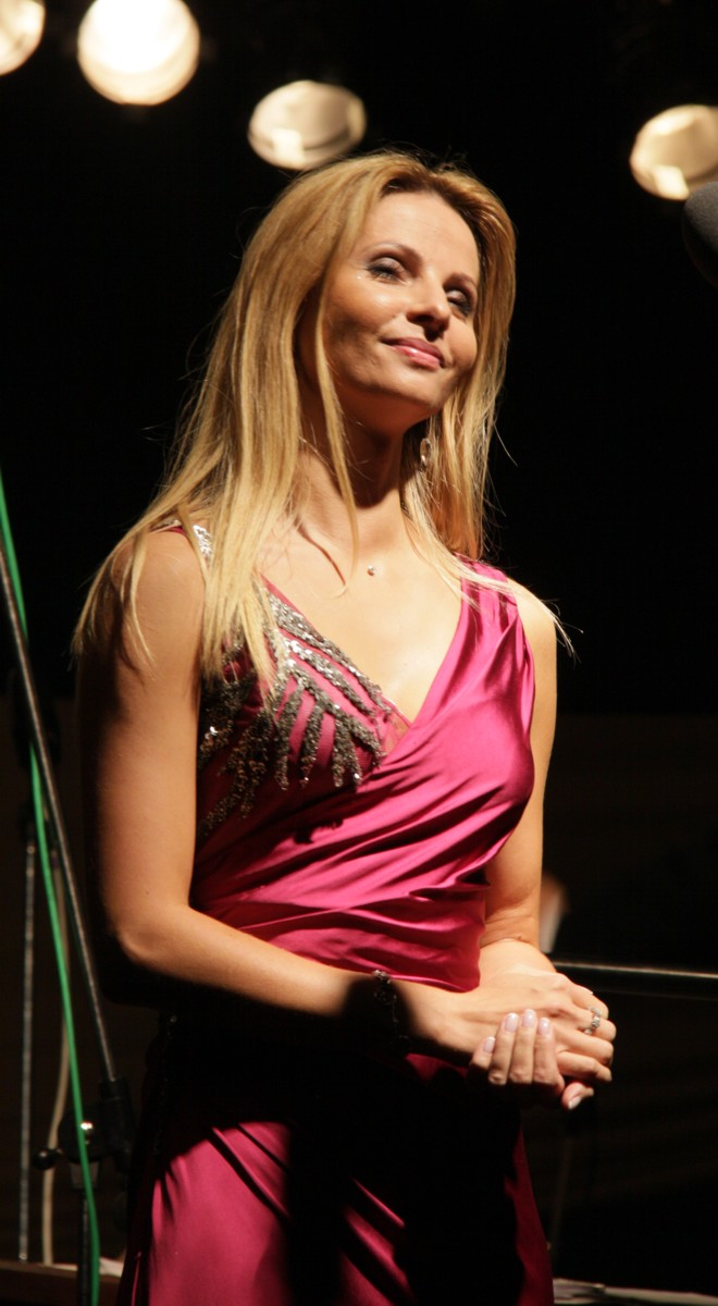 Magdalena Idzik, polish opera singers, operatic mezzo-sopranos